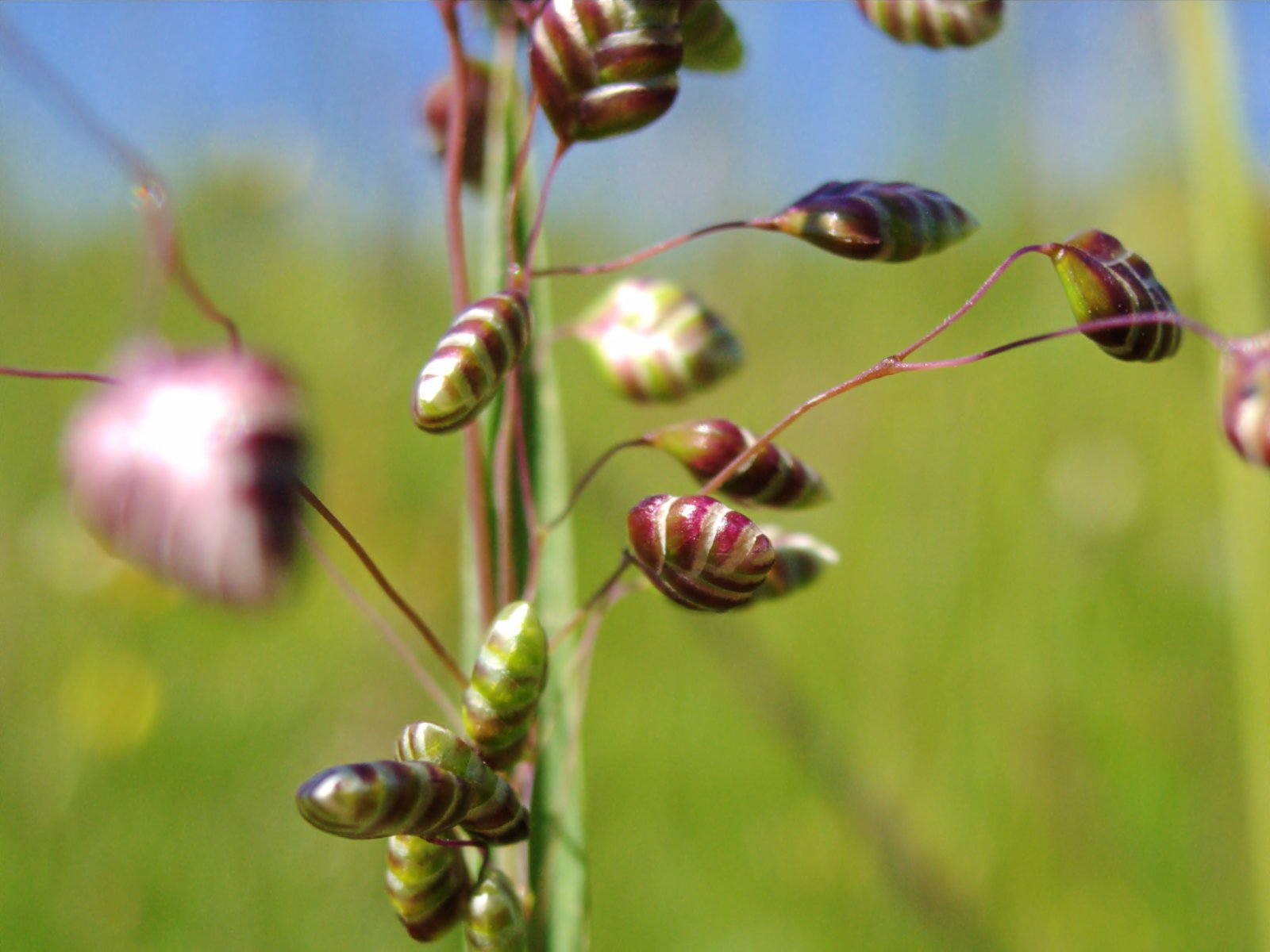 Name: Briza media. Family: Poacea. Location. Nettersheim, Eifel, NRW, Germany